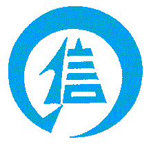 Shinano Nagano chapter